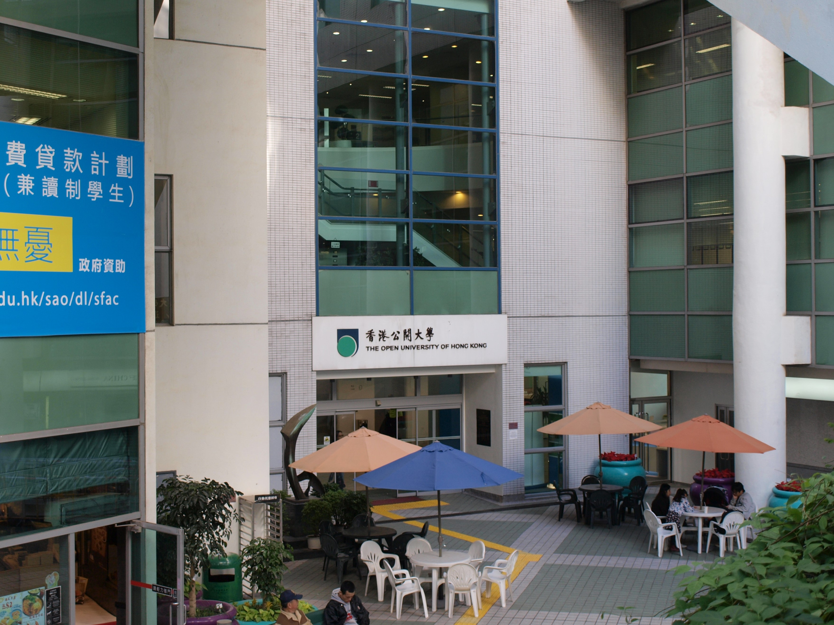 The Main Entrance of OUHK Main Campus.